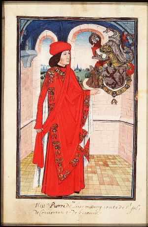 Statuts, Ordonnances et Armorial de l'Ordre de la Toison d'Or (Statutes, Ordonnances and armorial of the Order of the Golden Fleece) Place of origin, date: Southern Netherlands; 1473. Added sections: Southern Netherlands; 1478 or shortly after and 1491 or shortly after Material: Vellum, ff. 86, 249x187 (167x106) mm, 23 lines, littera cursiva (lettre bourguignonne). French. Binding: 18th-century brown leather Decoration: 1 full-page miniature (170x115 mm) with border decoration; 92 miniatures (185/155x120/100 mm); 1 historiated initial (80x90 mm) with border decoration; decorated initials with border decoration (ff., Added section: miniatures ; 4 drawings for miniatures (not finished) Provenance: Presented in 1473 by Gilles Gobet, King of Arms of the Order of the Golden Fleece, to Charles the Bold, Duke of Burgundy and the other Knights during the Chapter of the Order held at Valenciennes; Treasure of the Golden Fleece, Brussls; taken away by the Treasurer C.-F. Humyn (d. 1735) or his daughter C.Ch. de Corte; by legacy to her daughter M.-L. de Corte, wife of Ph.-E. de Poederlé; purchased in 1781 at the Poederlé sale by G.-J- Gérard of Brussels; acquired in 1832 as part of the Gérard collection (no. A 27)